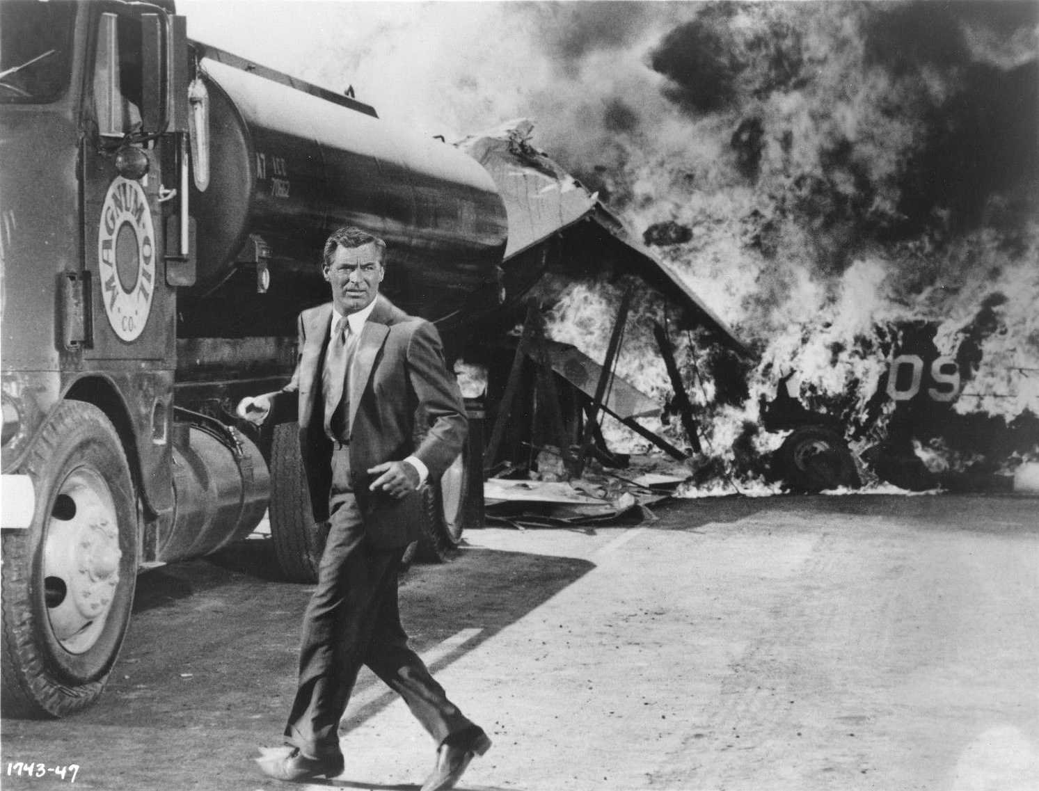 Photo of Cary Grant from the film North by Northwest (1959). See also film still. No copyright notice.